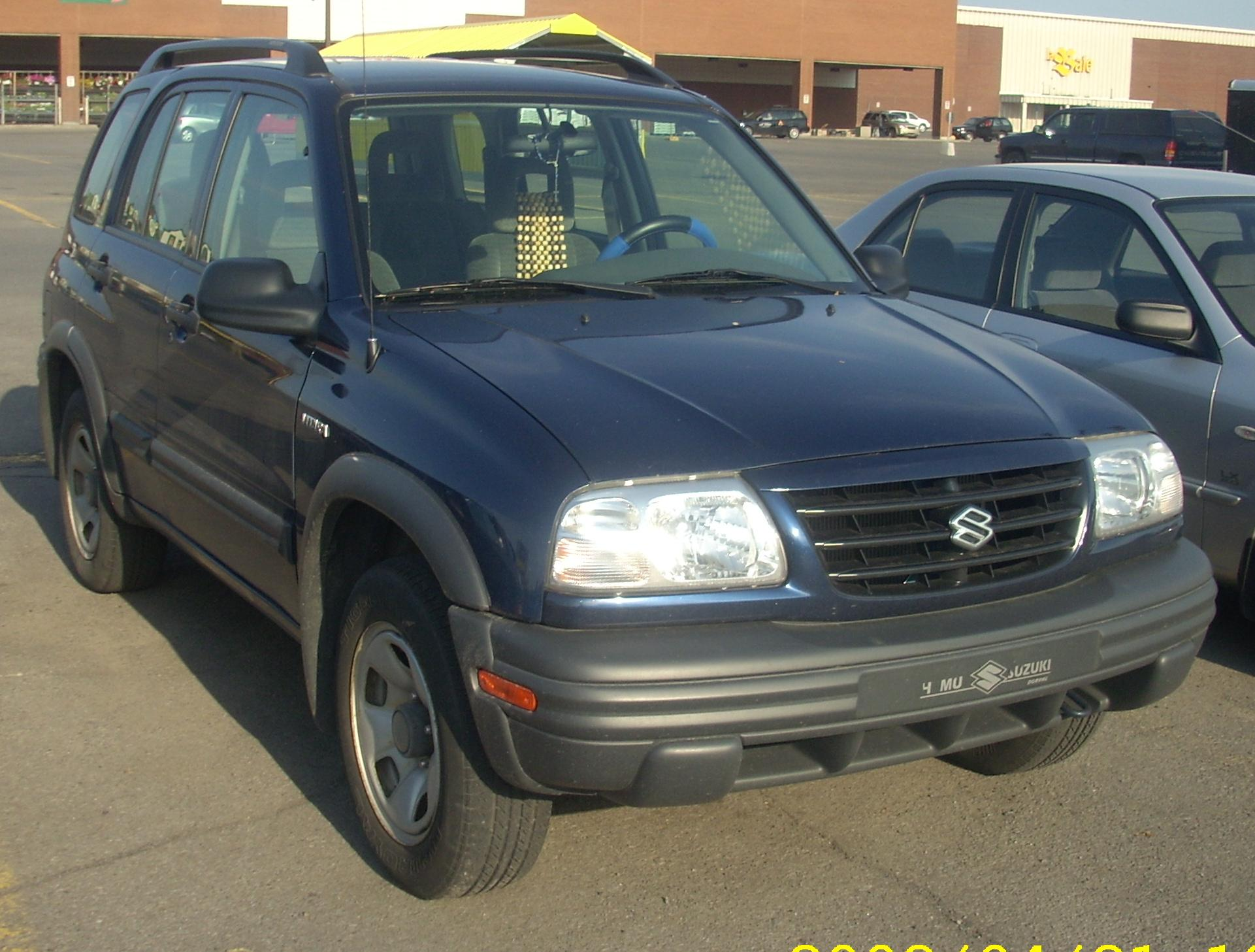 2002-2003 Suzuki Vitara photographed in Montreal, Quebec, Canada.